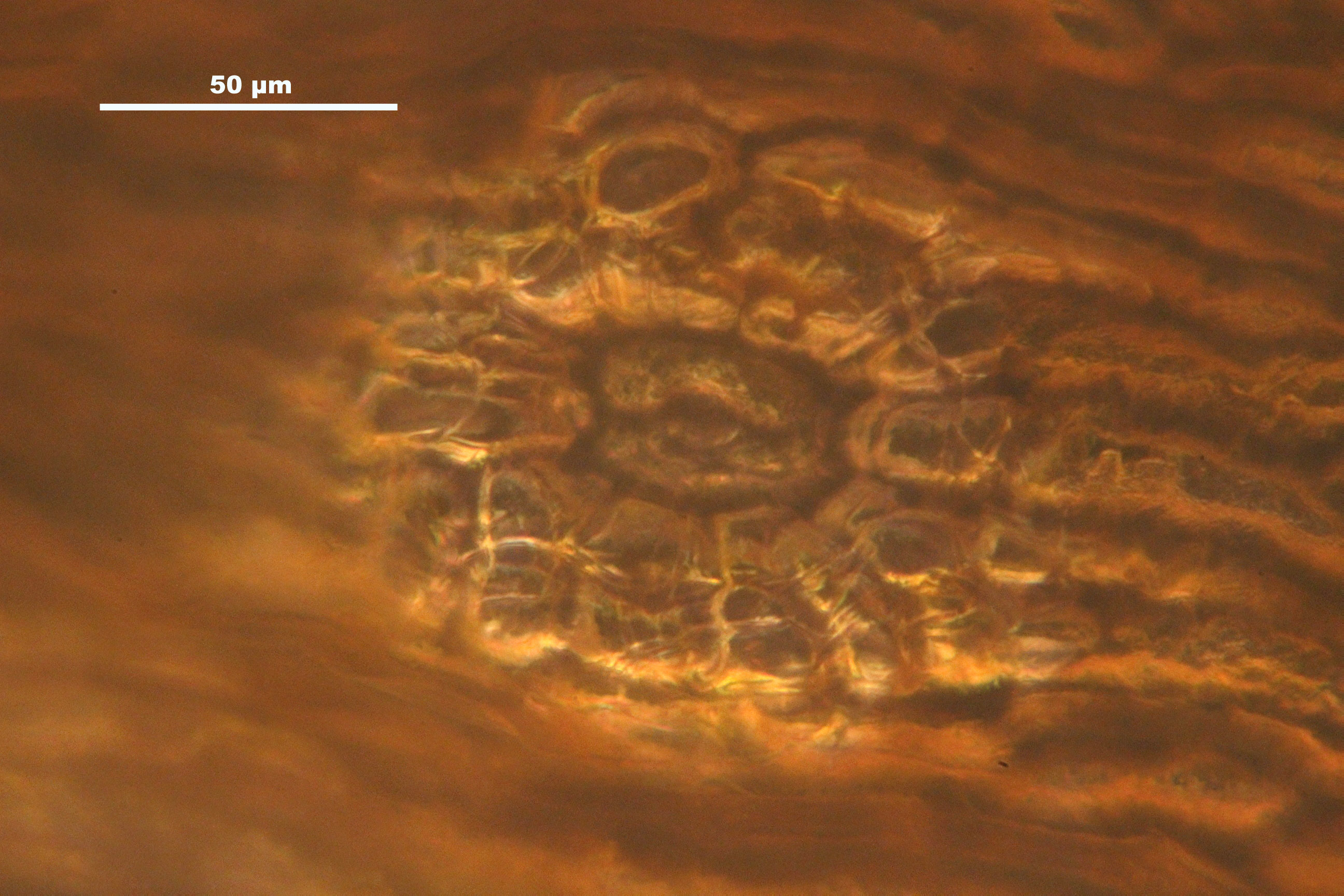 Orthotrichum striatum